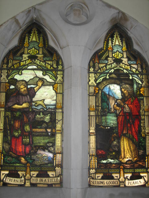 Depiction of the Treasure in the field and the Pearl of great price. Photograph of stained glass window at Scots' Church, Melbourne.